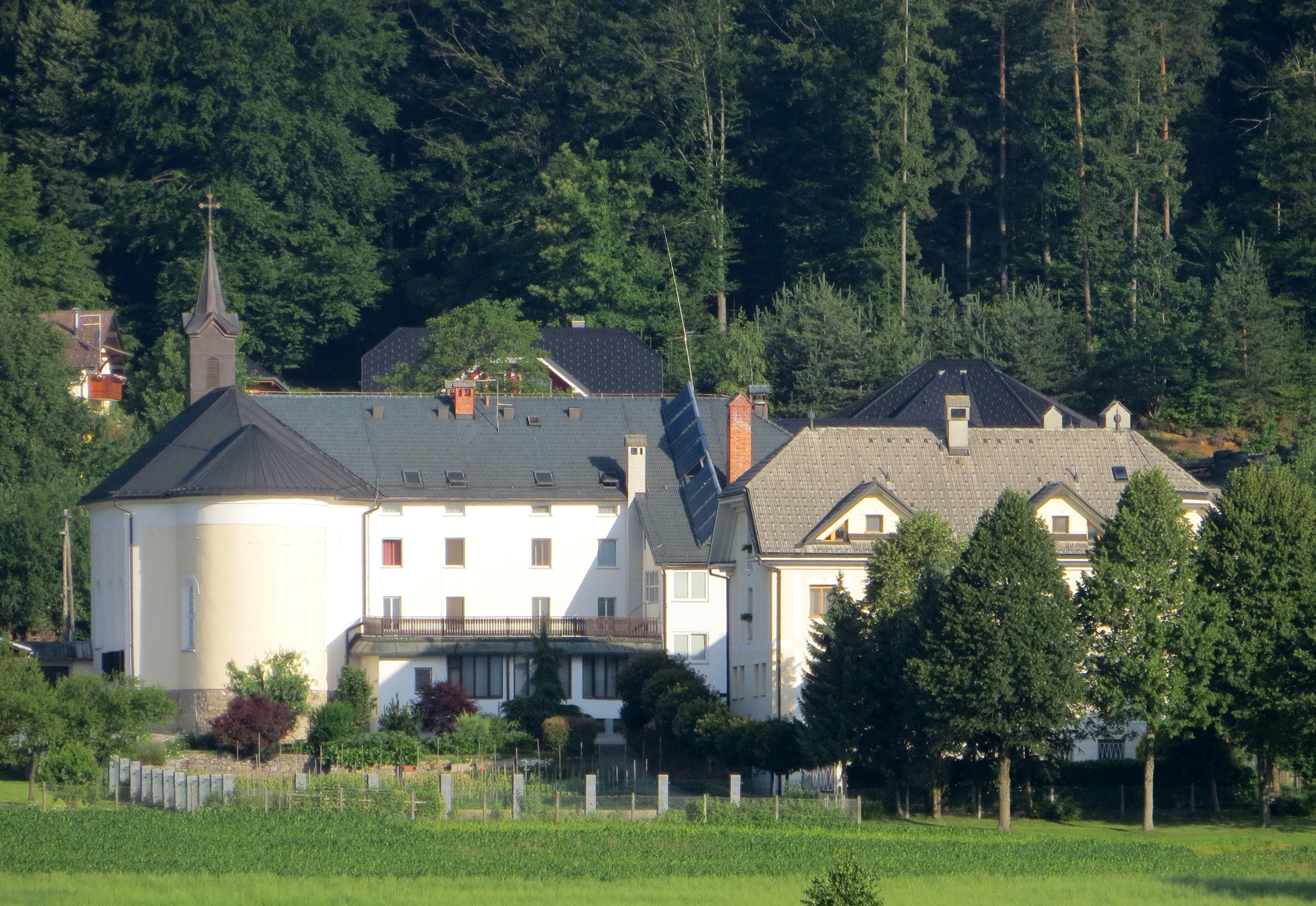 Repnje Castle in Repnje, Municipality of Vodice, Slovenia